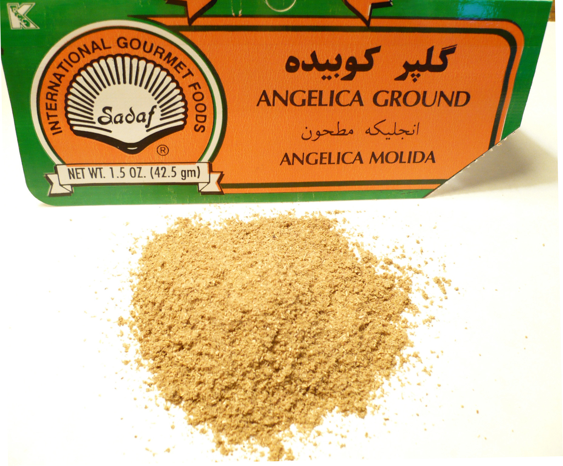 Ground golpar (Heracleum persicum) seeds, with their packaging. Photo taken in Kent, Ohio.